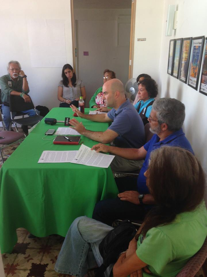 Press conference given by the Coalition for the Northeast Ecological Corridor on February 2014 to denounce the over-priced purchases of lands for conservation purposes within the Northeast Ecological Corridor.